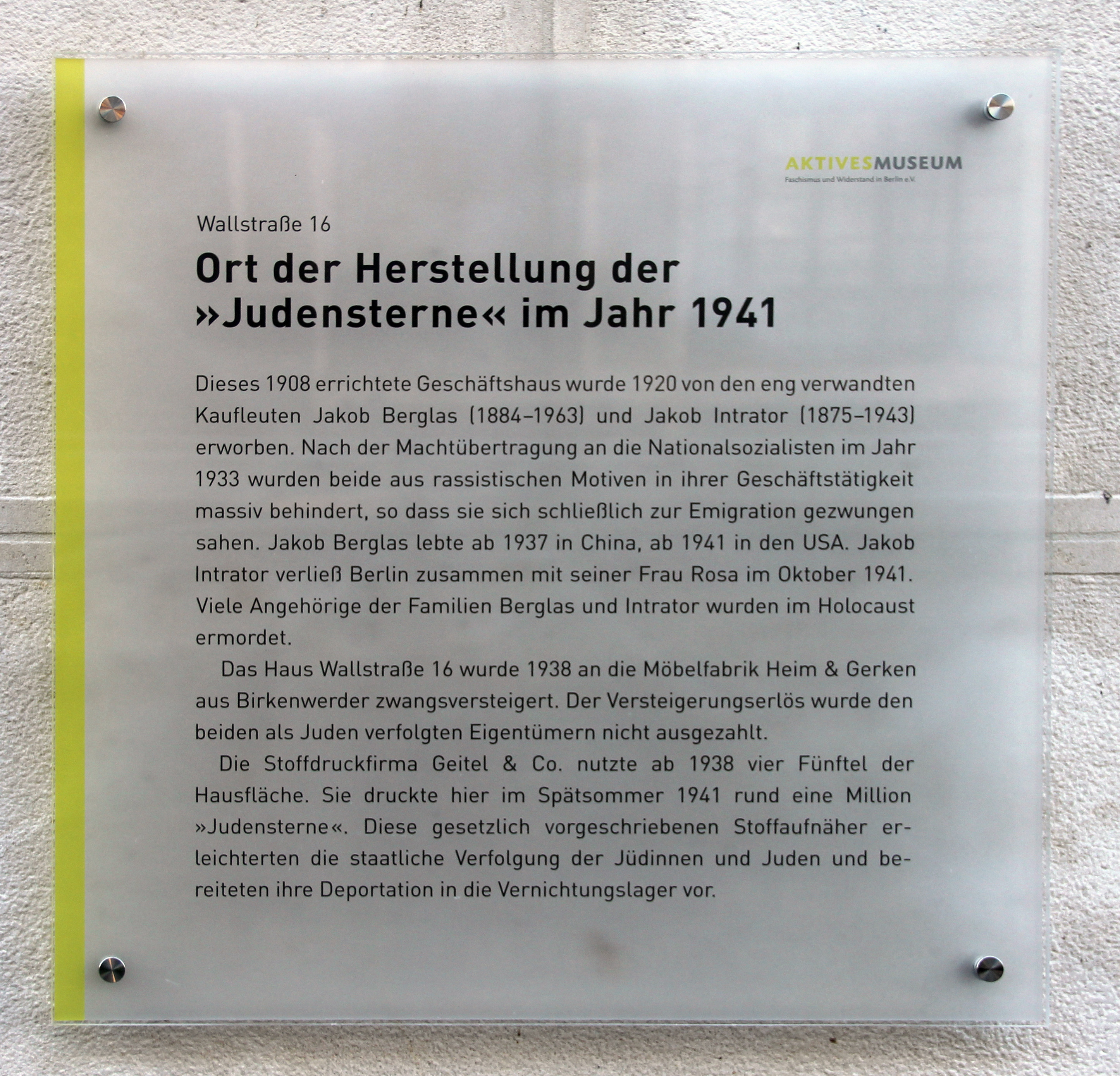 Memorial plaque, Judensterne, Wallstraße 16, Berlin-Mitte, Deutschland